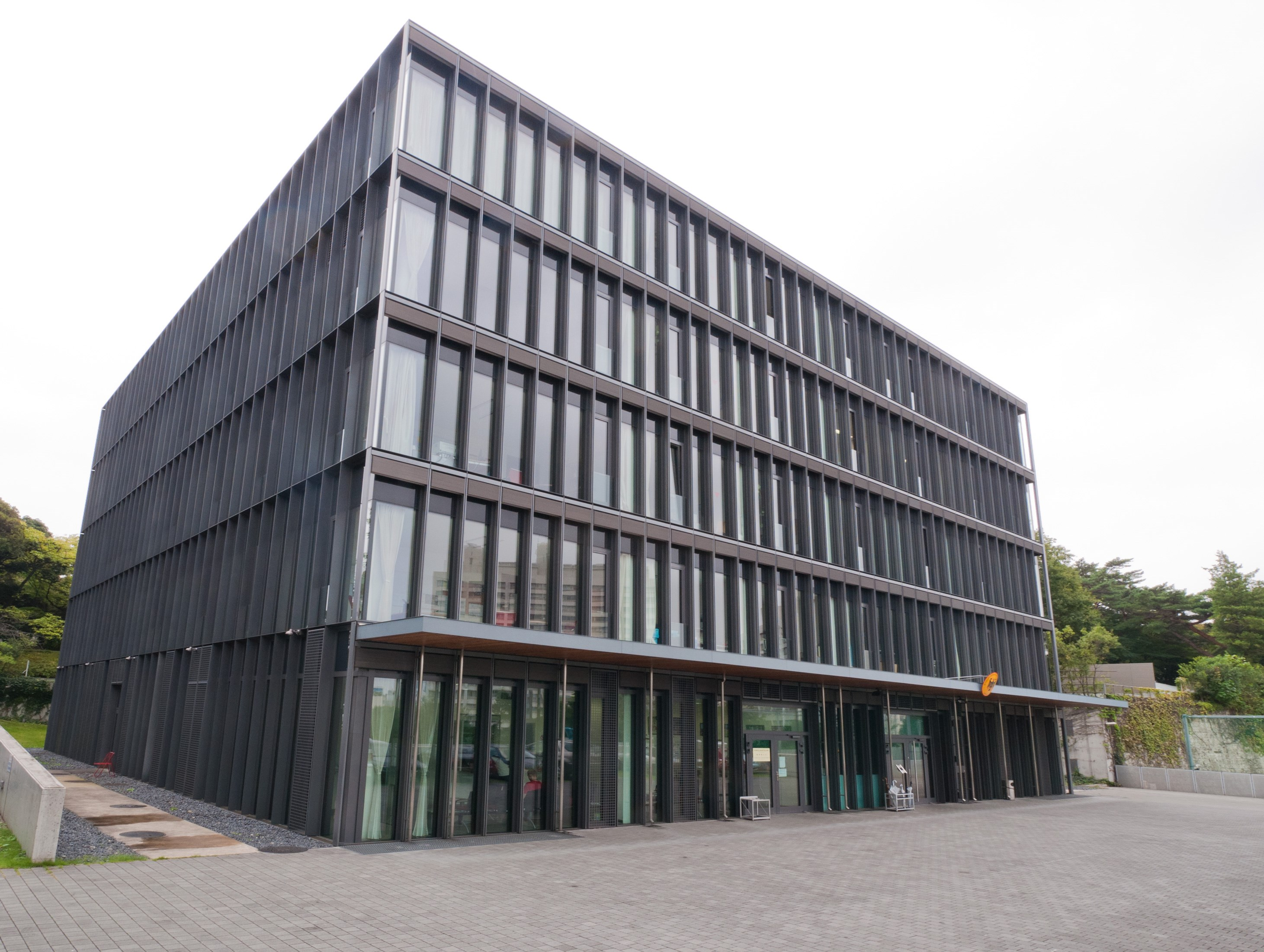 German Embassy Building Tokyo (DSC 0488BoTokyo)